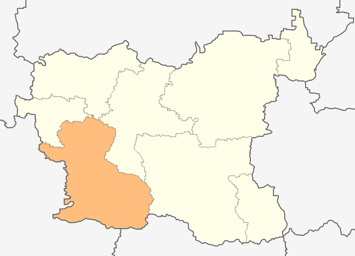 Map of Teteven municipality, Lovech Province